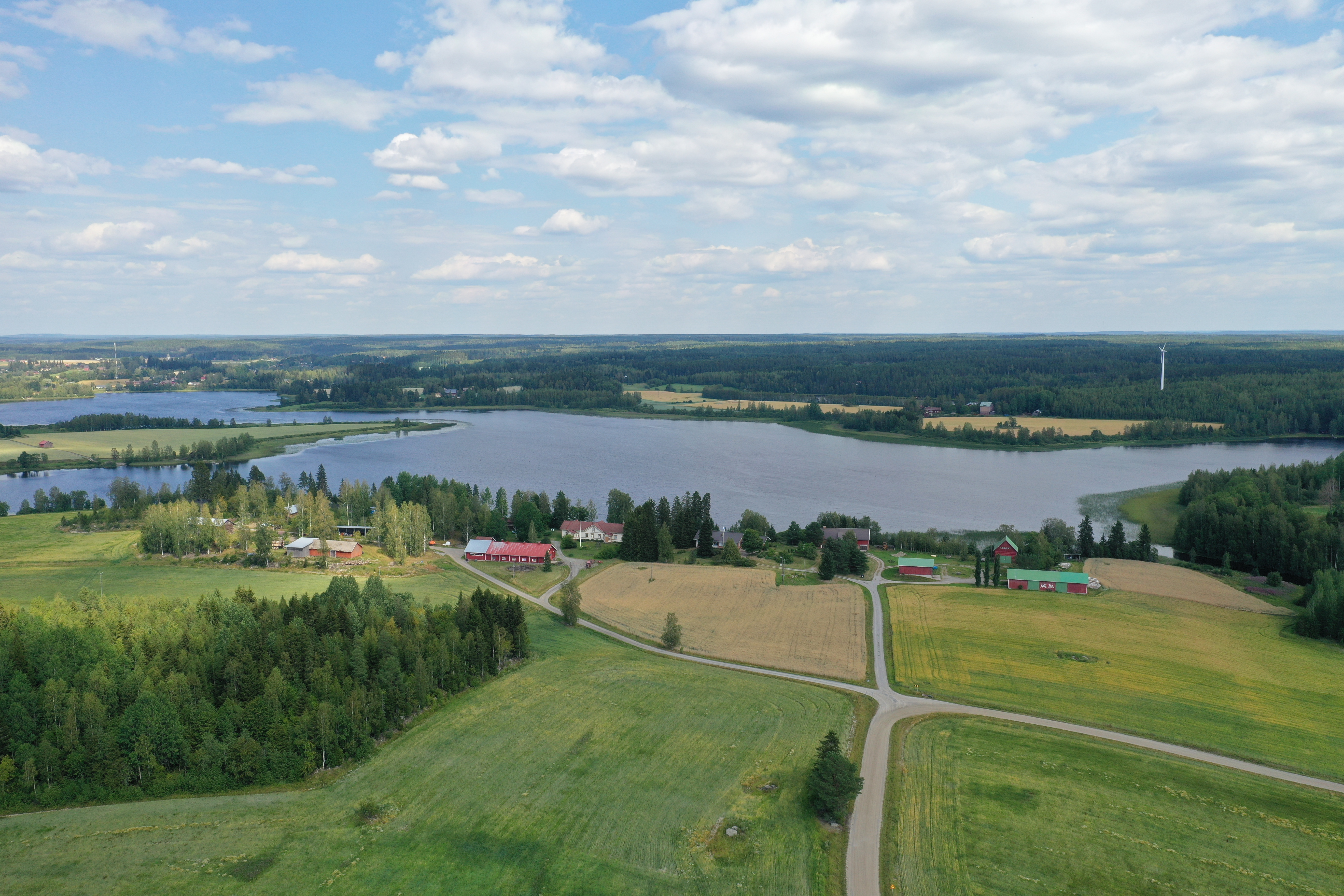 Village of Kouraniemi in Sastamala, Finland